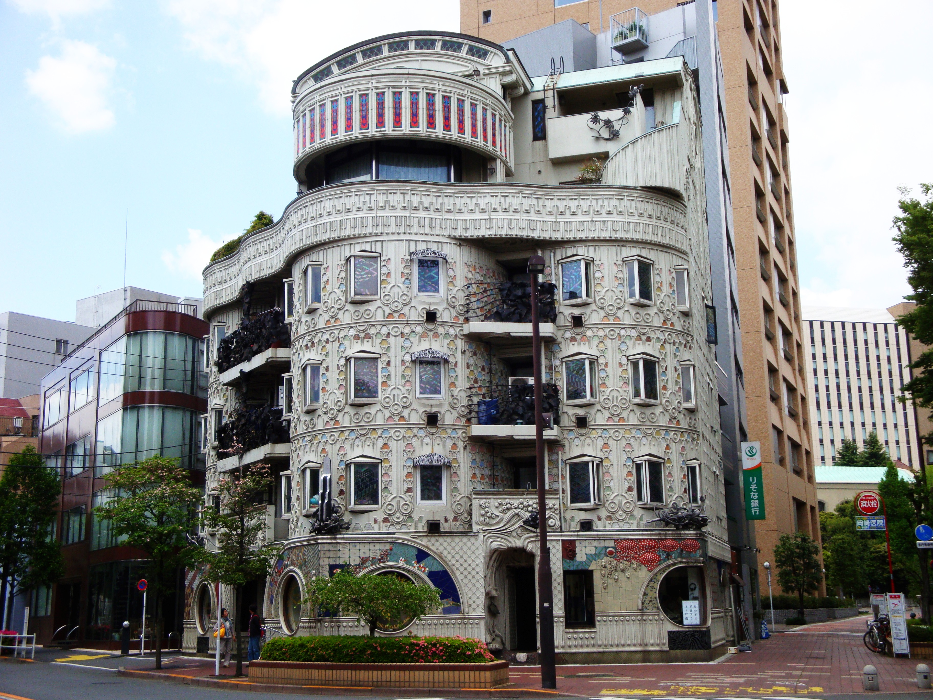 "Waseda El Dorado" Building by Von Jour Caux (Toshiro Tanaka), near the Waseda University Campus, Shinjuku, Tokyo